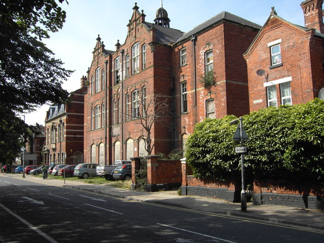 The Old Art College, Eleanor Street I believe this was the Art College, now derelict, and will probably go the same way as most other disused buildings: arson.